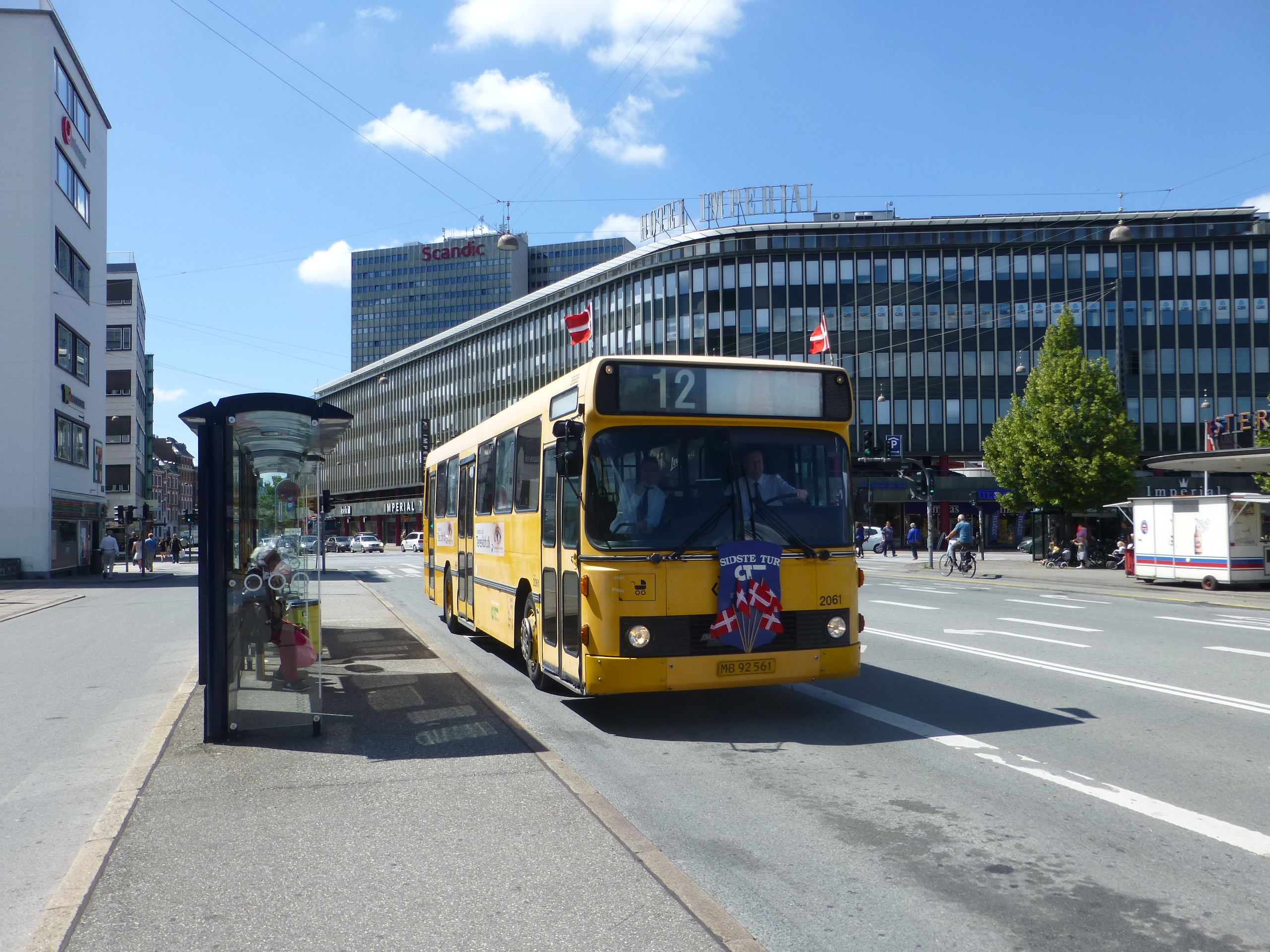 The Danish bus Company City-Trafik was merged with the Danish part of Nettbus into Keolis at July 1, 2014. The day before it was marked with a round on line 12 in Copenhagen by a City-Trafik bus from the beginning of City-Trafik in 1990. The bus at Vesterport Station on the way to Femøren Station.